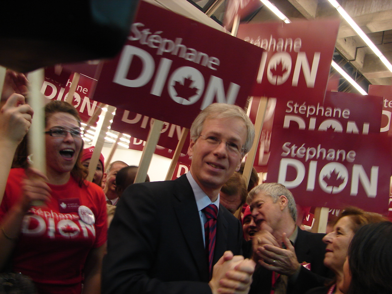 Stephane Dion at a Liberal leadership convention rally for his supporters.